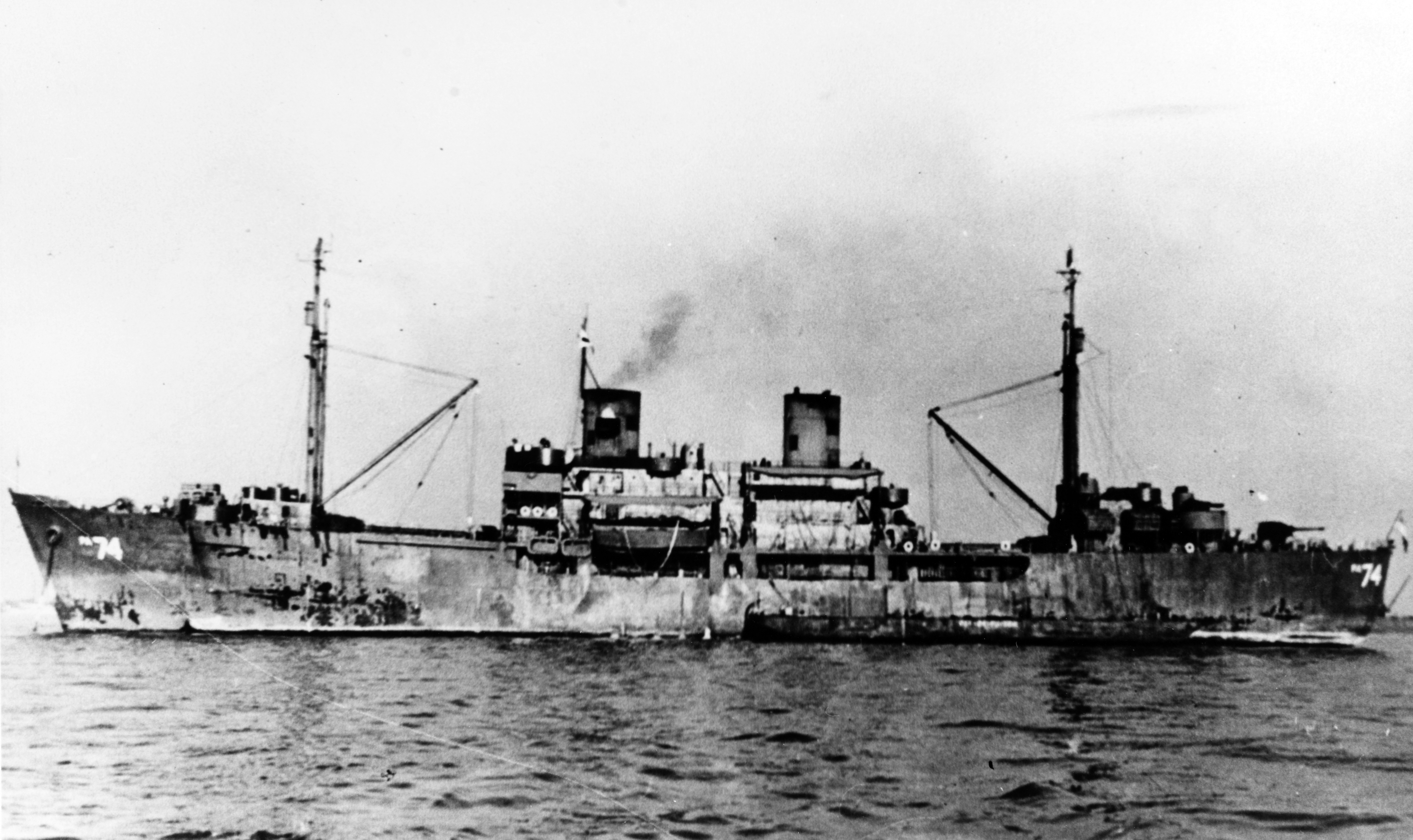 at anchor, some time during World War II